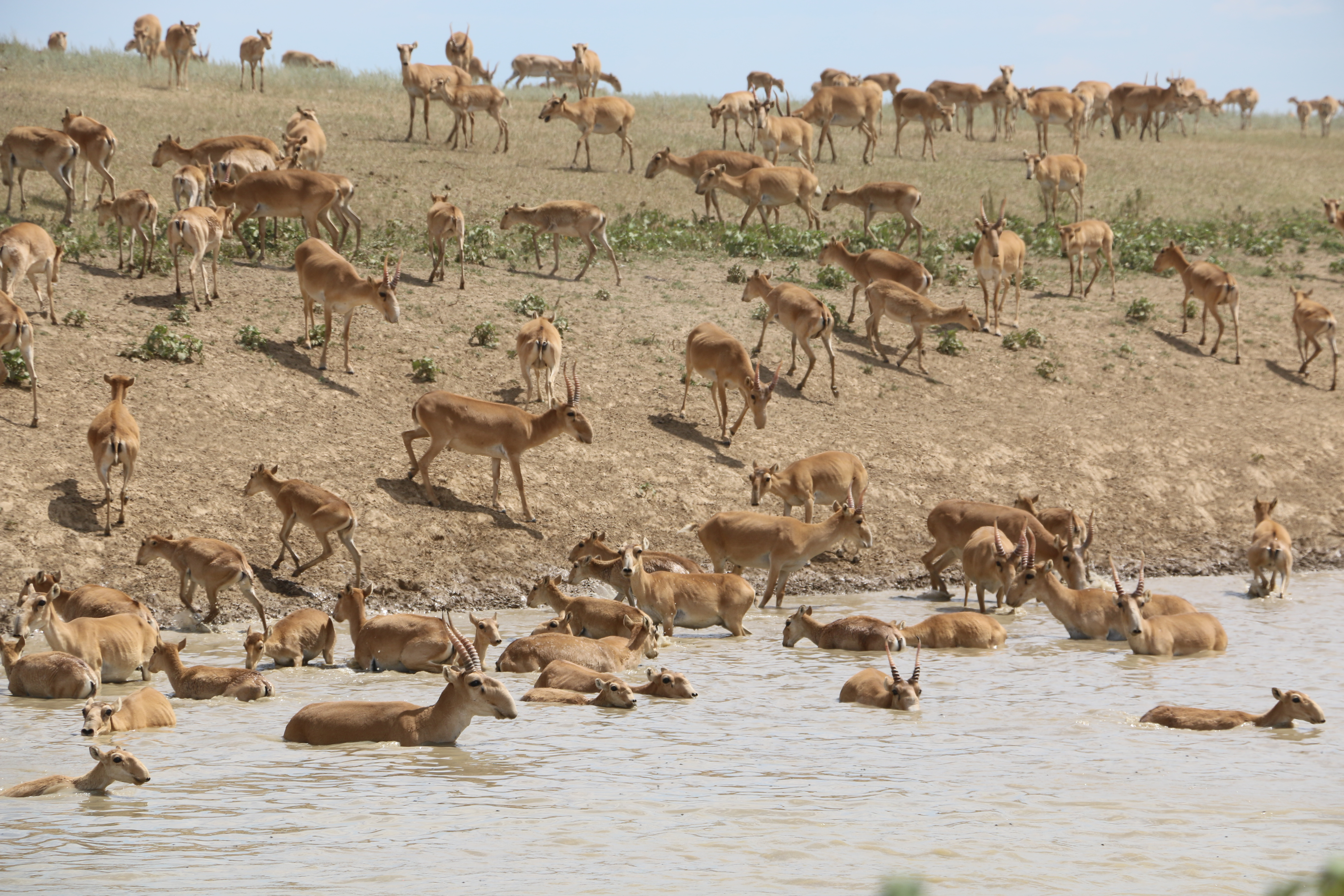 Saiga in West Kazakhstan